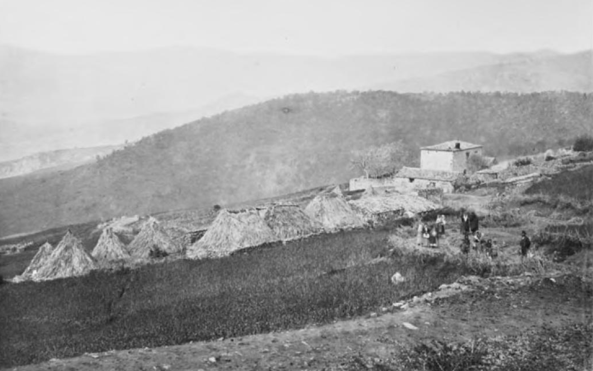 Casa Otaiti, on the estate of Castello di Maniace, Bronte, Sicily, seat of the Duke of Bronte. Small summer residence built by the estate's land agent William Thovez (1819-1871),[1] named Casa Otaiti (so named because it was surrounded by the "wigwams" of peasant's houses, the straw-thatched roofs reminding the Duke of Tahiti in the Pacific[2]), situated to the north of the Castello at higher altitude to escape malaria, on the way up to the Nebrodi Mountains.[3] This was done on the order of the 2nd Duke, who was concerned about his health and had urged him to drain and canalize the swampy areas around the Castello.[4]